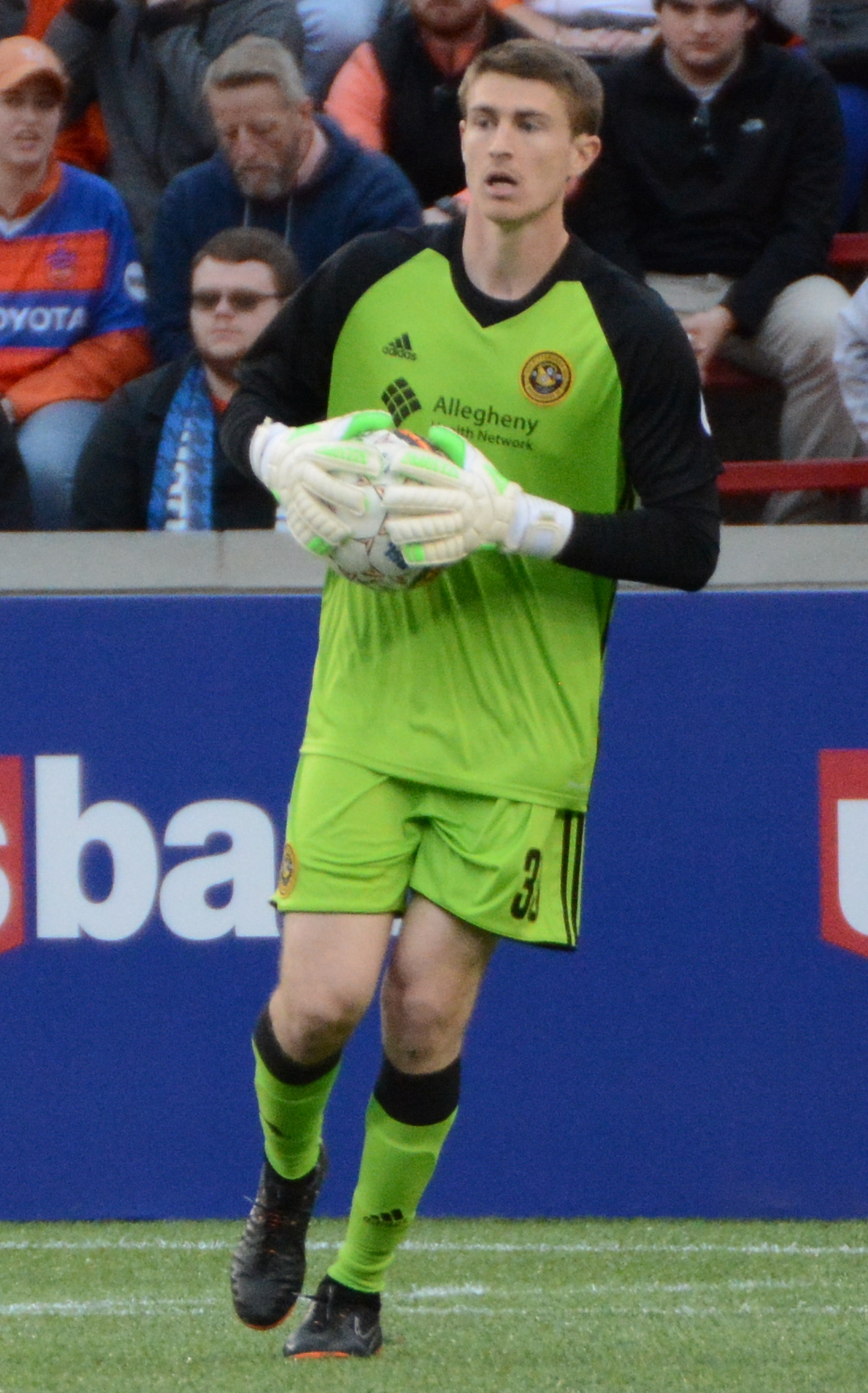 Taken during a USL regular season match between FC Cincinnati and Pittsburgh Riverhounds at Nippert Stadium in Cincinnati, USA on April 21, 2018.